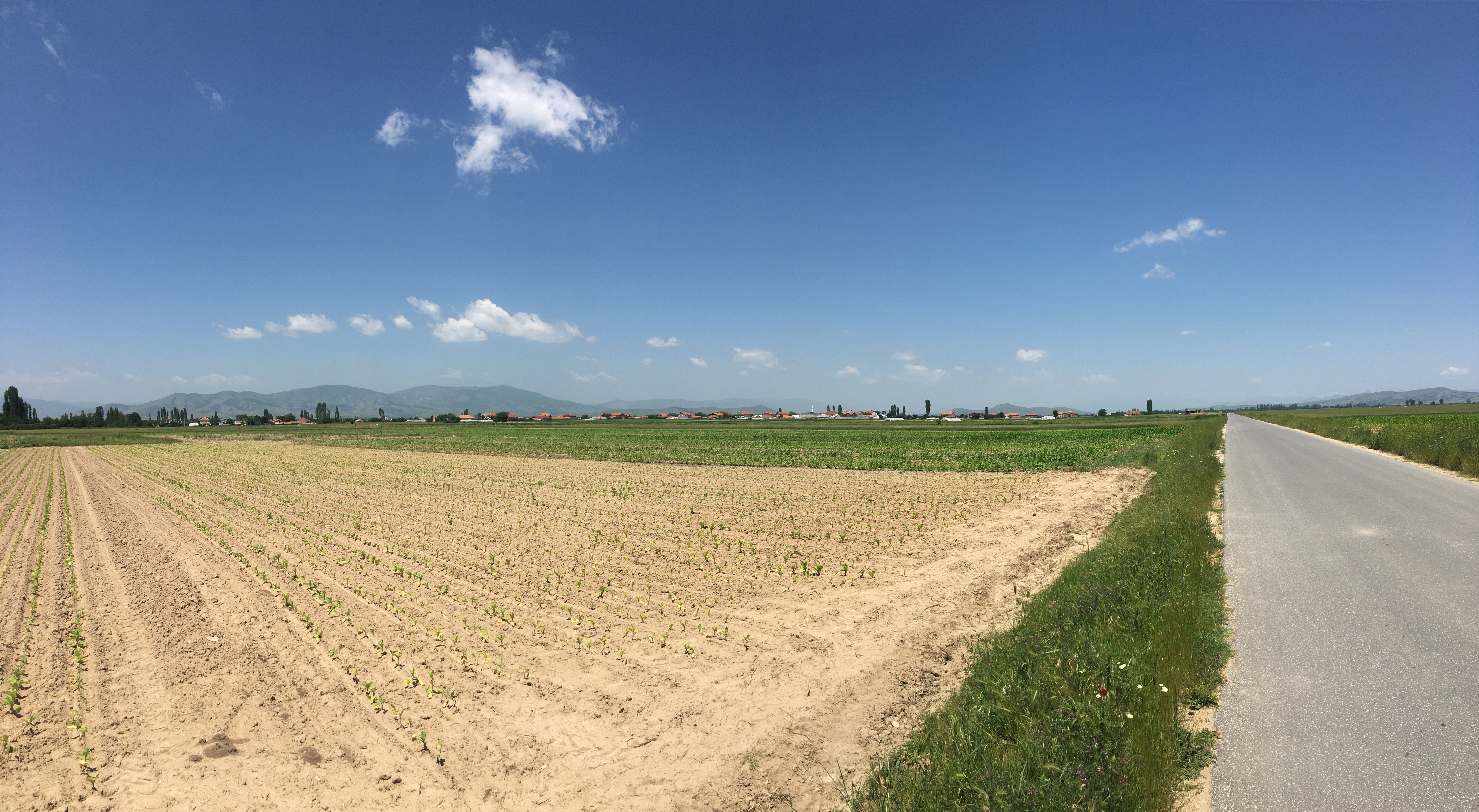 A panoramic view of the village of Budakovo